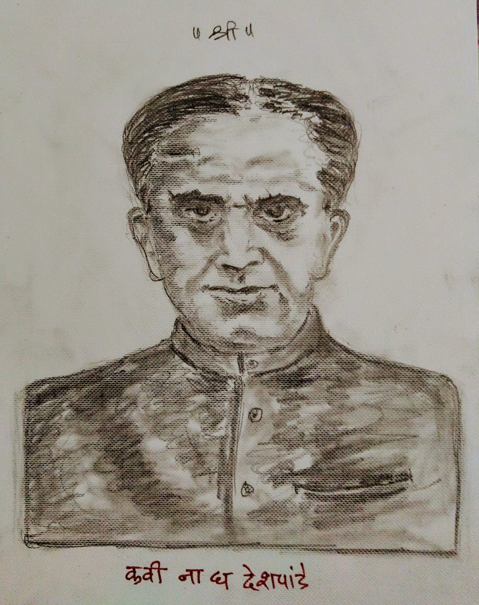 Great Marathi Poet Na Gha Deshpande Aka ना घ देशपांडे